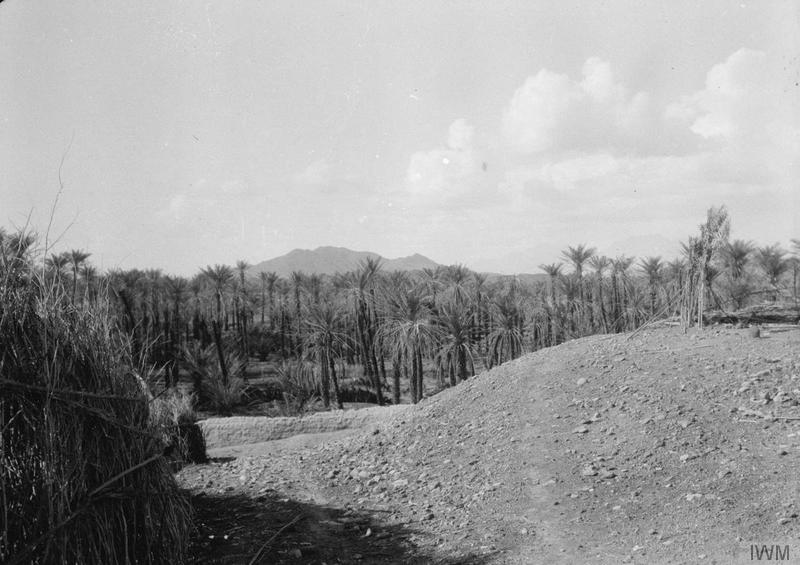 T E Lawrence and the Arab Revolt 1916 - 1918 Nakhl Mubarak, near Yenbo, looking south-west on to Jebel Agida.